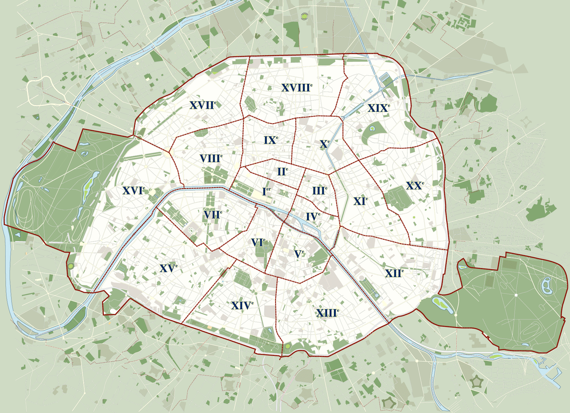 Plan of Paris and its 20 arrondissments.